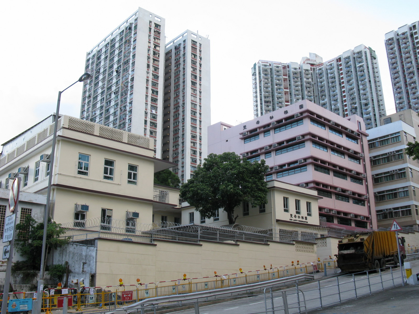 Our Lady's Kindergarten